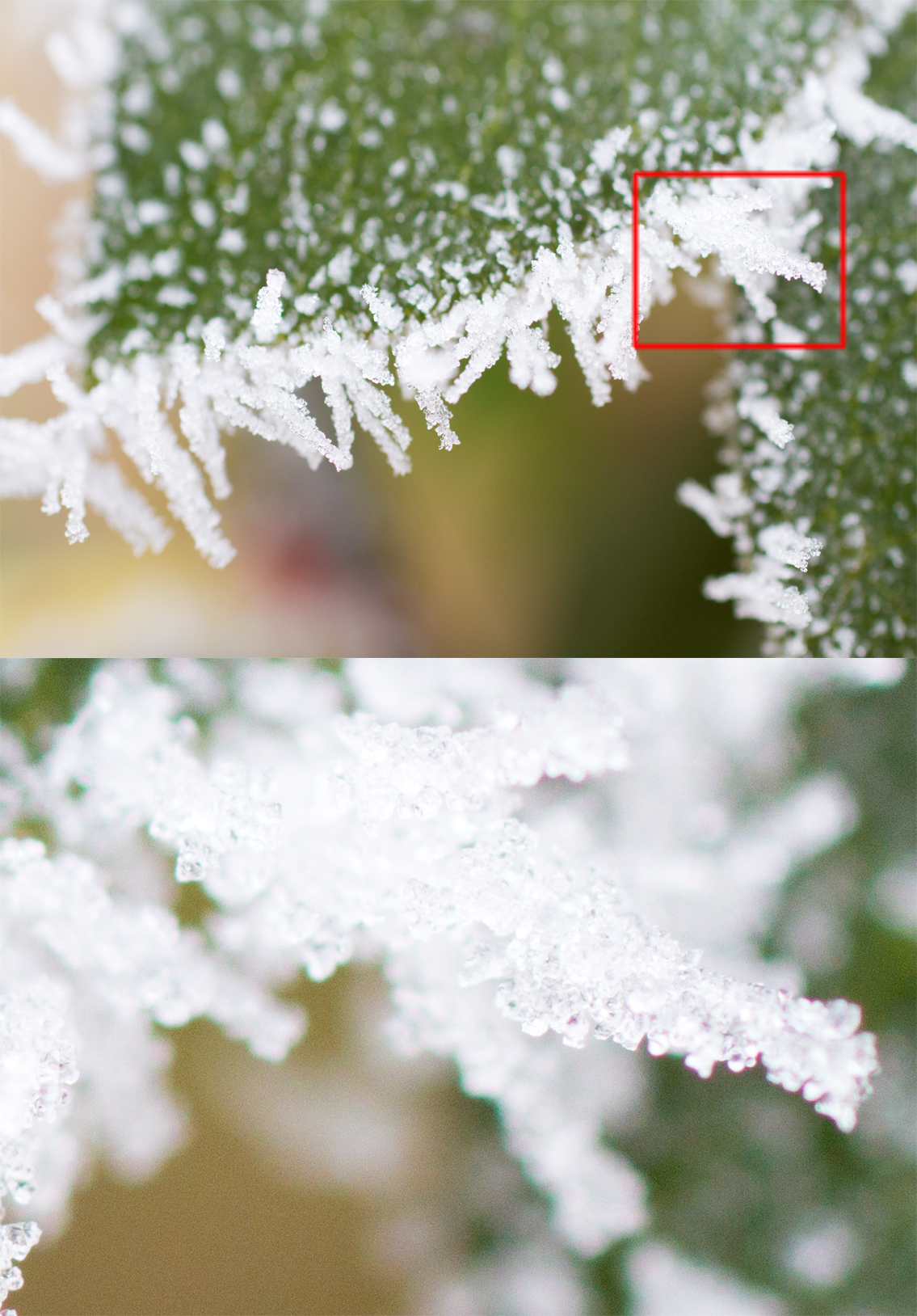 Close up of rose leave with hoar frost buildup.